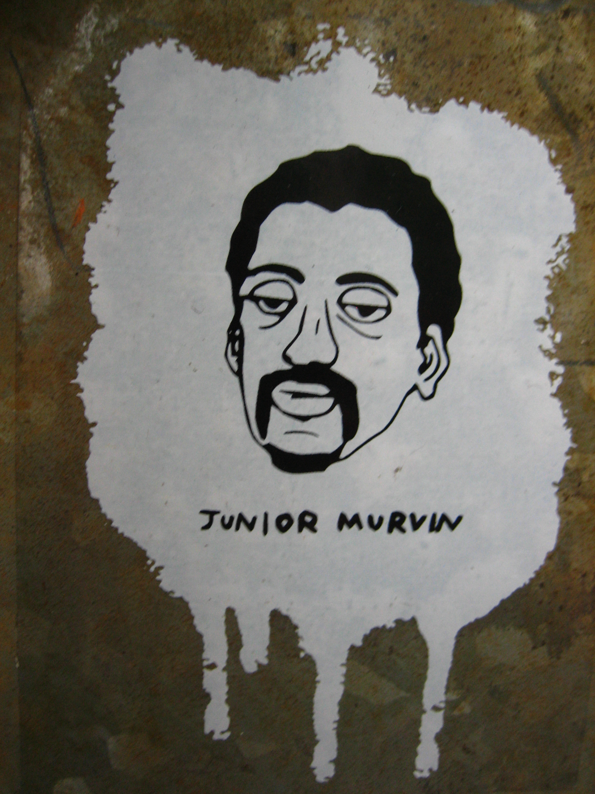 Junior Murvin